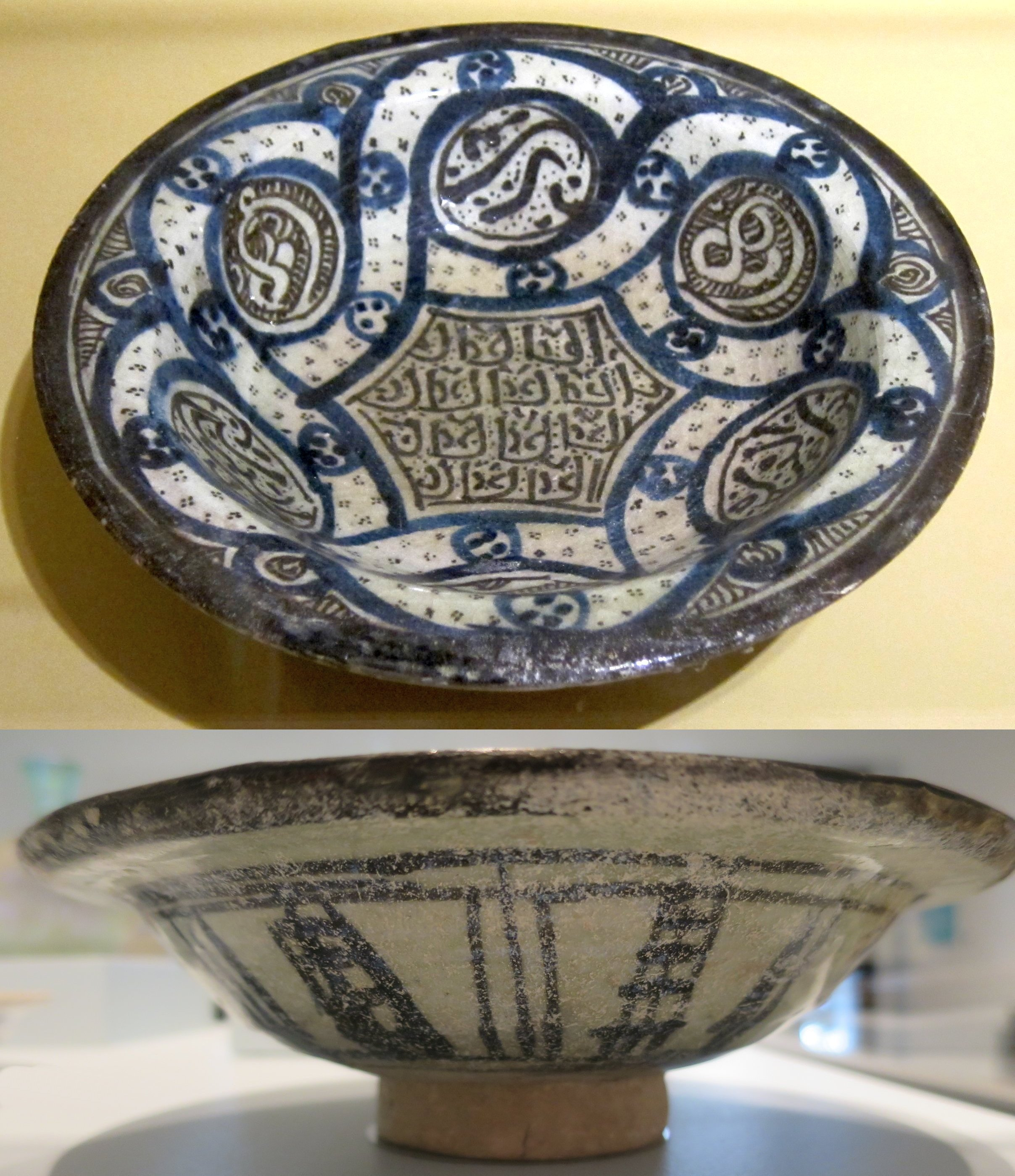 Bowl from Egypt, Mamluk period, 13th-14th century, underglaze-painted stonepaste, Honolulu Museum of Art accession 3092.1